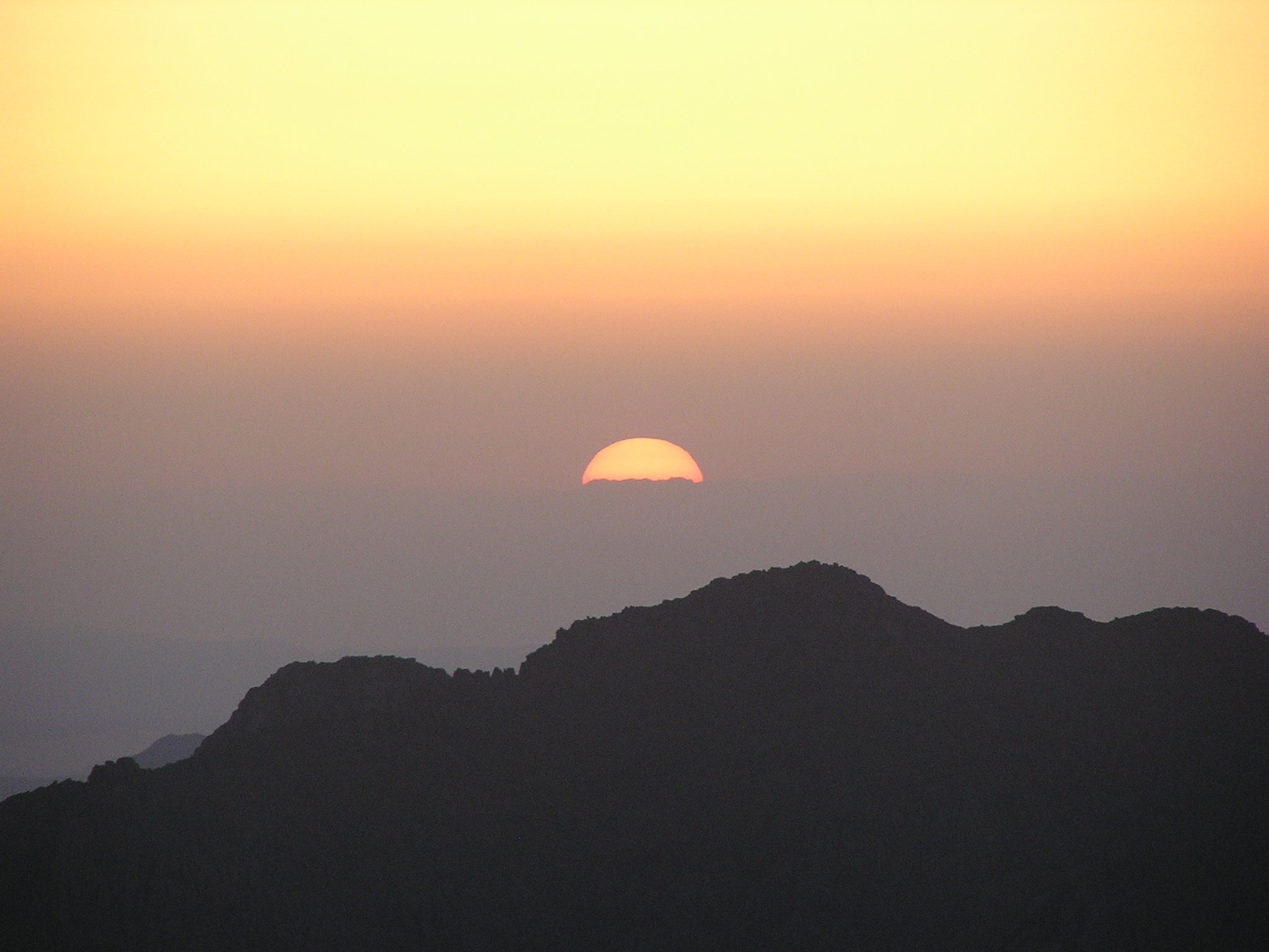 Sunrise on Mt. Sinai in Egypt